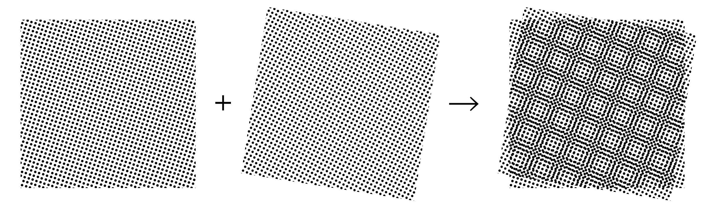 Moiré-pattern when two rasterized squares with 45° and 60° black raster-points superimpose.